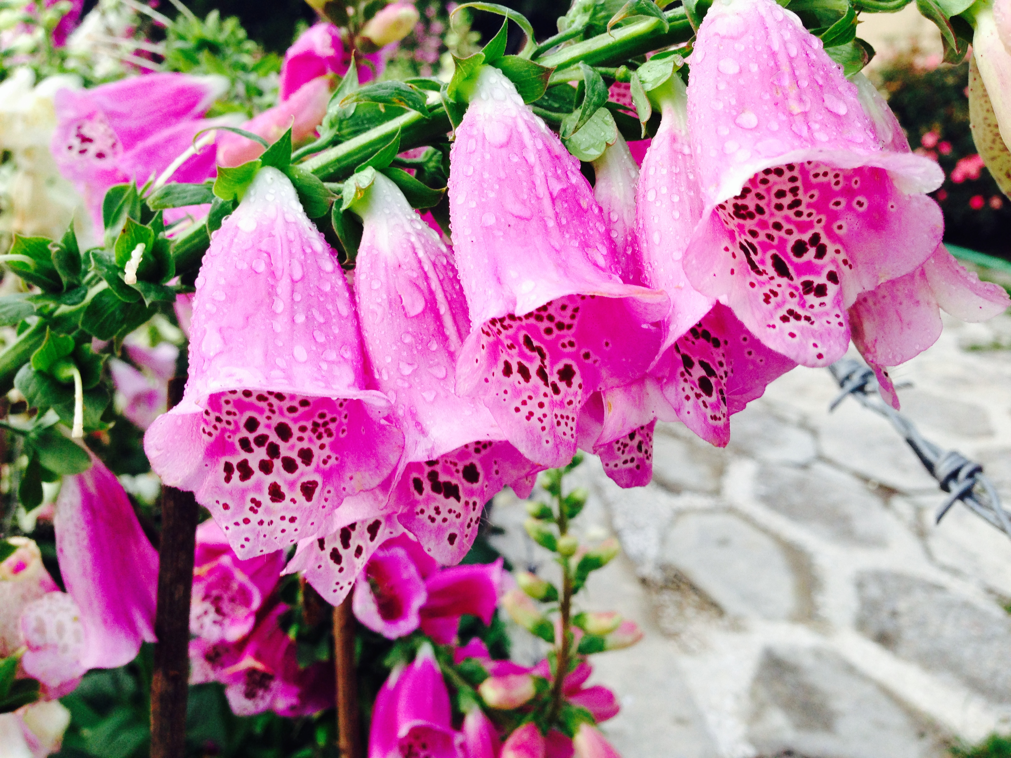 it looks like dew drops are meant for these flowers